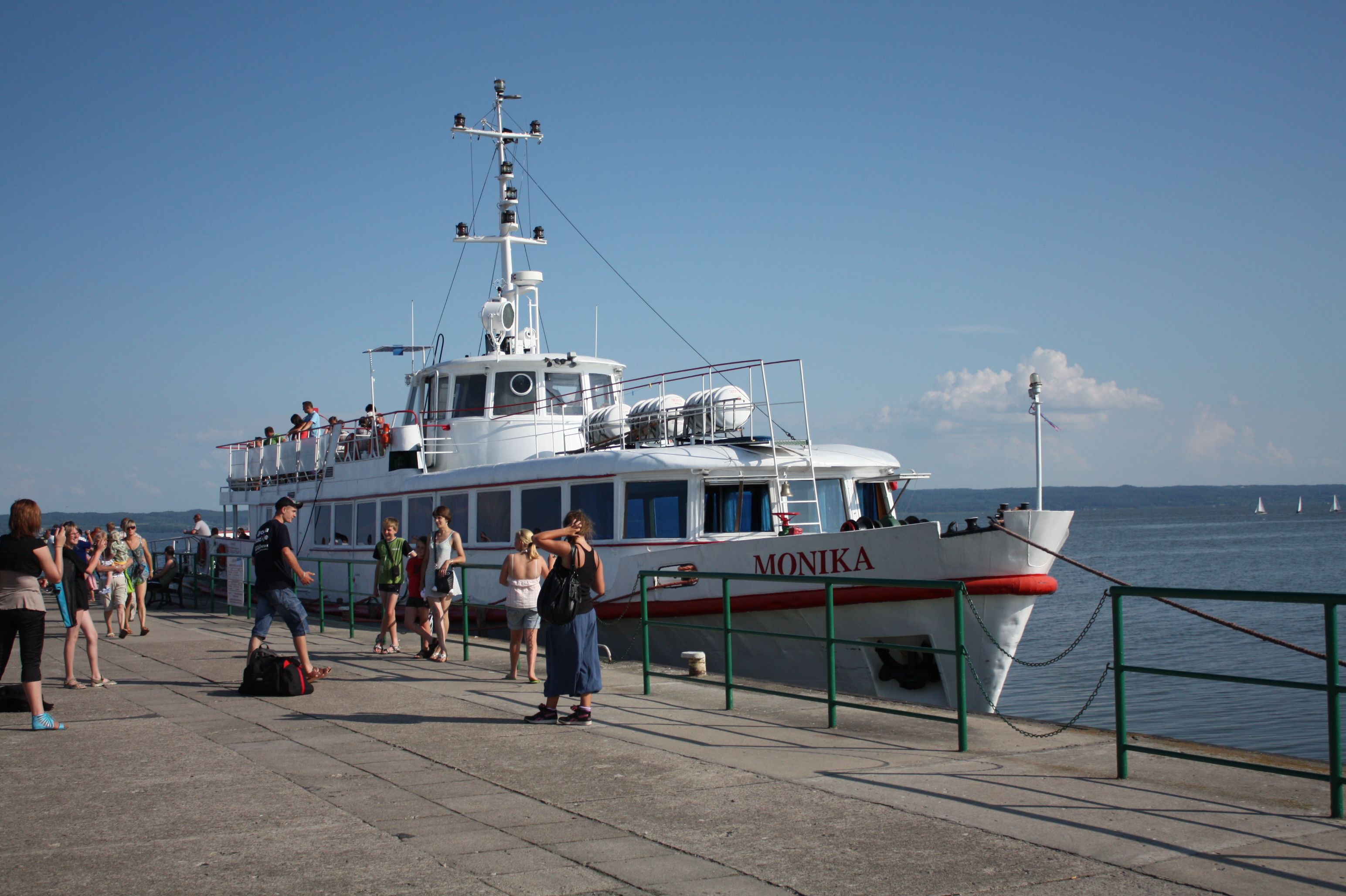 Port of Krynica Morska